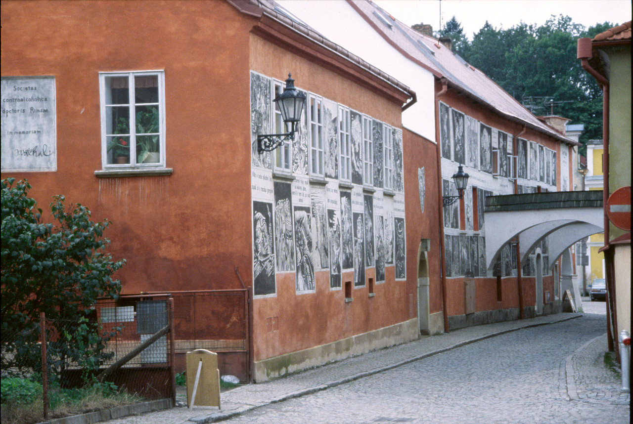 Grafitti showing wood cuts by Josef Váchal at Litomyšl / Czech Republic